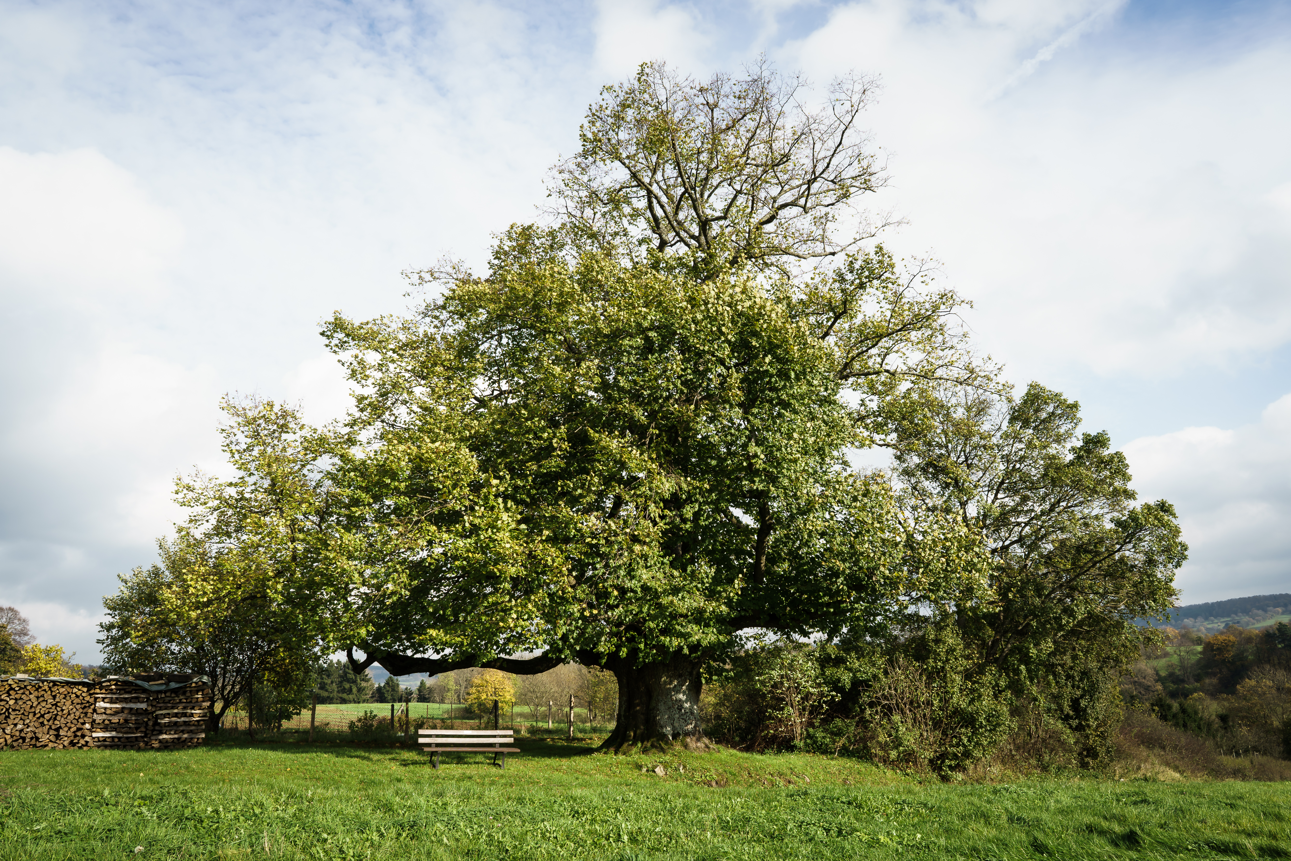 Tilia in Götzen / Schotten - Natural monument